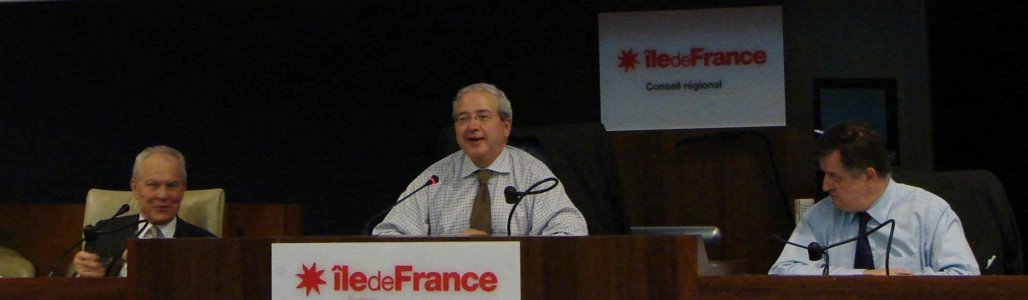 SME forum